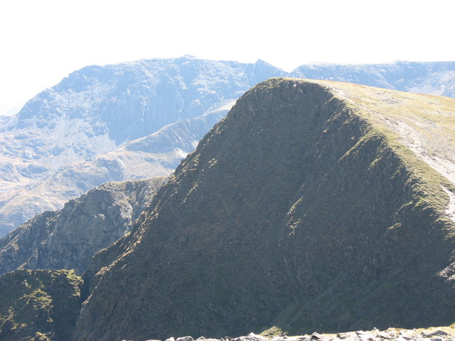 The North Face of Foel Goch. This photograph is taken from Mynydd Perfedd.